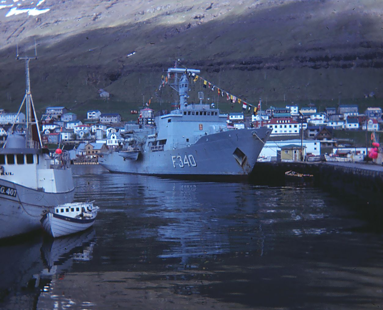 Danish naval ship F340 "Beskytteren" in the harbour of Klaksvik, Faroe Islands. May 1979.